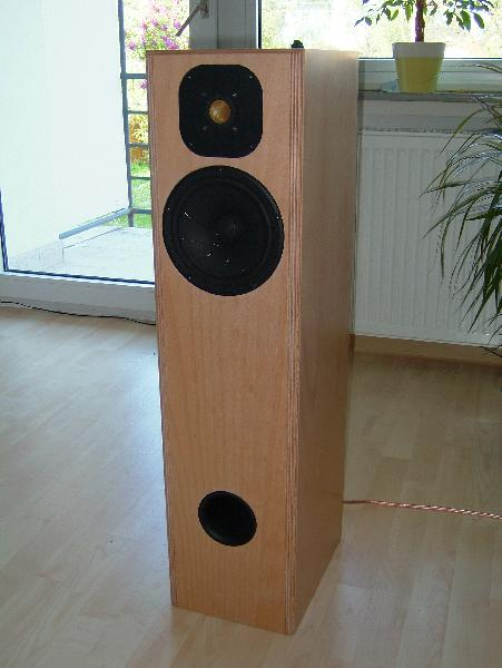 Bassreflexbox